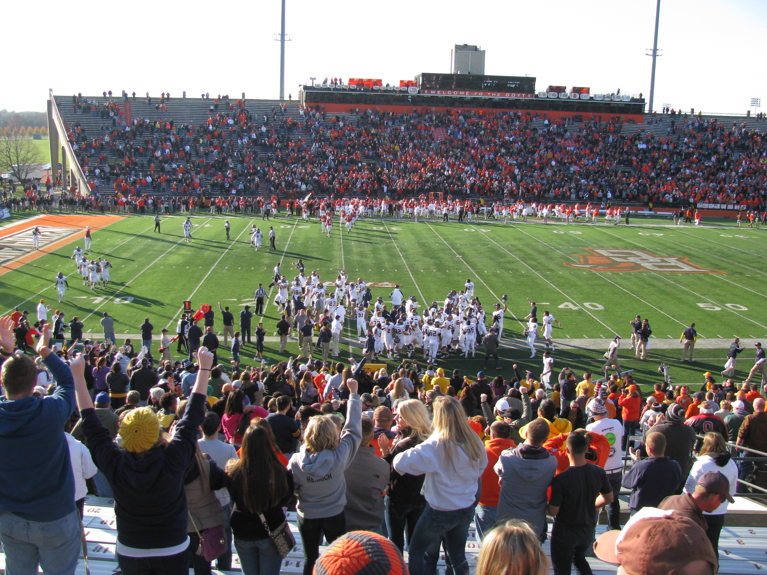 Kent State players and fans (foreground) celebrate near the end of the game against Bowling Green at Doyt Perry Stadium in Bowling Green, Ohio. The Flashes defeated the Falcons 31-24 to clinch their first MAC East title in school history.